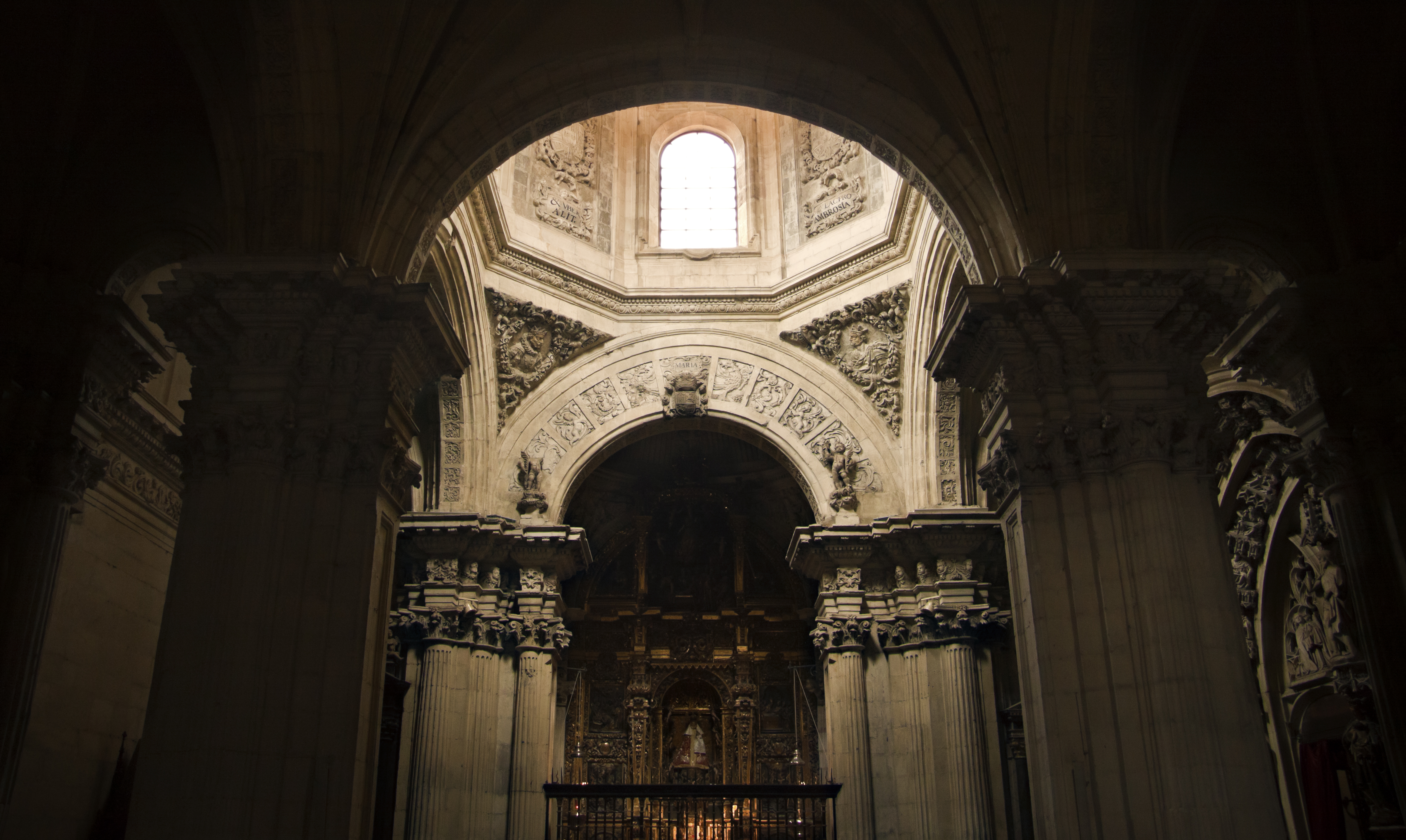 Inside of the Casto King's Chapel of the Cathedral of San Salvador of Oviedo; in particular, the cruise light through a dome with windows. In the background, the altarpiece with the image of the Virgin.